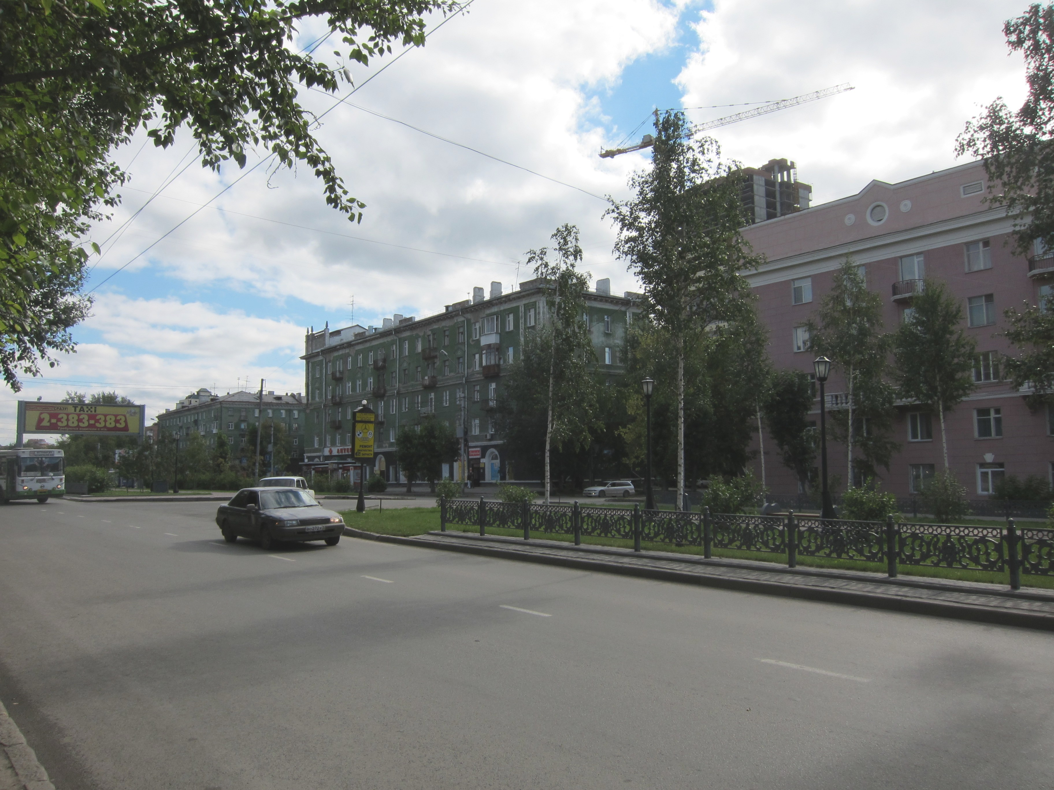 Krasny Avenue (Krasny prospekt) in Zayeltsovsky District of Novosibirsk, Russia